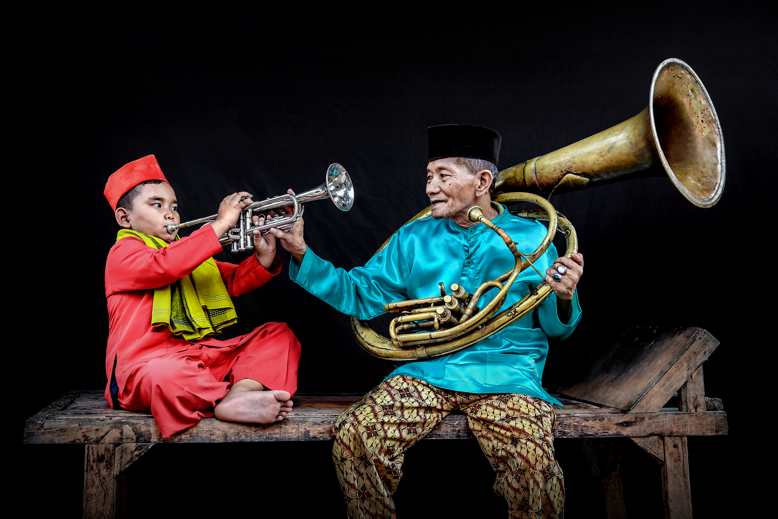 Tanjidor, or Tanji, is a Betawi art in the form of an orchestra. It has existed in and around Citrap since the 19th century.